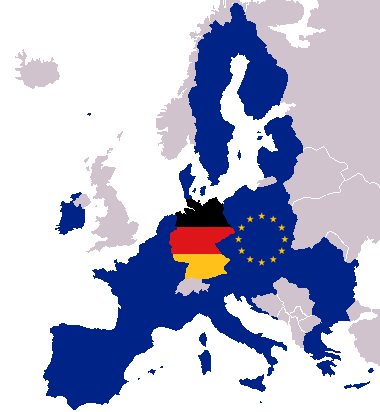 Map of Europe with flags of Europe and Germany imbedded